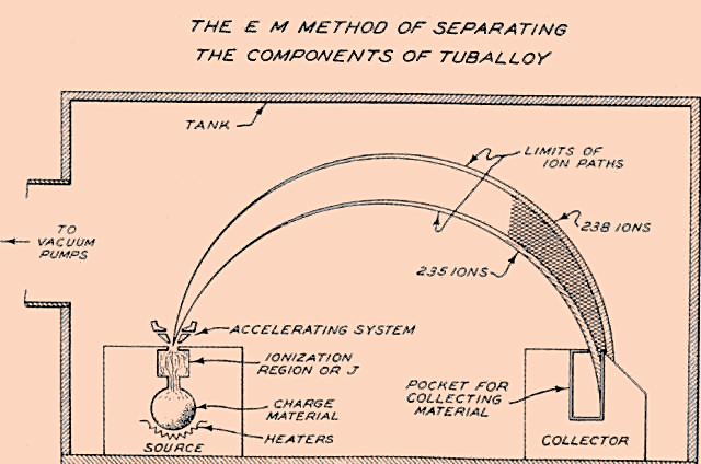 circa early 1940's diagram of uranium isotope separation in the calutron Category:United States history images